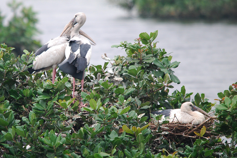 AsianOpenbill-Nellapattu